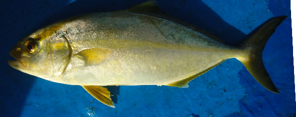 Seriola rivoliana collected in Pakistan.